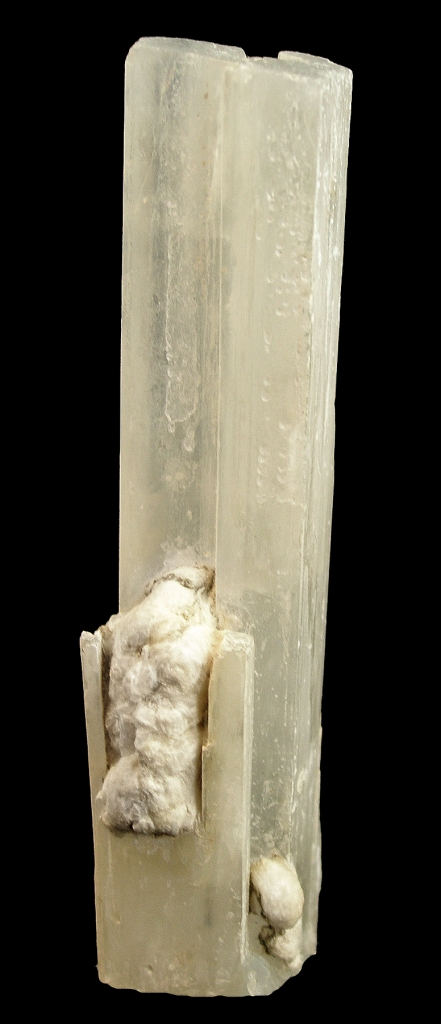 Inderite Locality: Boron, Kramer District, Kern Co., California, USA Size: 8.9 x 2.1 x 2.3 cm This is a superb, world class crystal of inderite, showing sharp form and a lack of alteration into chalky tincalconite so often seen in this material. Purchased from collector Ed Swoboda, in 1983, it is a superb, dramatic single crystal with a broad and perfect termination. Seldom seen on the market, today. Ex. Al Ordway Collection.